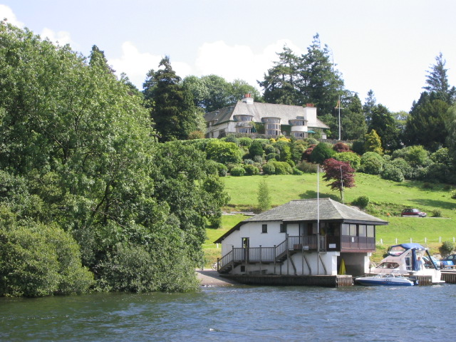 Charles Francis Annesley Voysey (British, 1857-1941): Broad Leys House, 1898, Ghill Head, Windermere, Cumria, headquarters of the Windermere Motor Boat Racing Club (WMBRC founded in 1927). Broad Leys was originally built for the owners of Kendal Milne Department Store in Manchester. In 1951 it was acquired by WMBRC and became the home of powerboat racings on lake Windermere until the introduction of a 10mph speed limit in 2005.